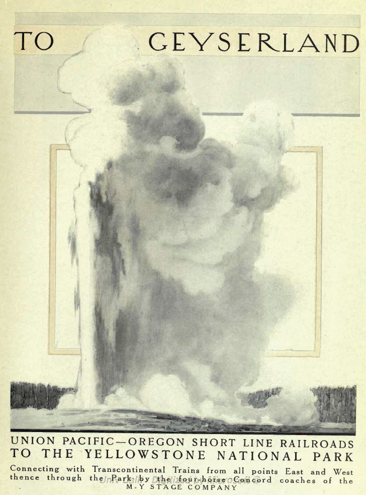 Frontpiece from To Geyserland, an Oregon Short Line Railroad Brochure on Yellowstone National Park (1910)